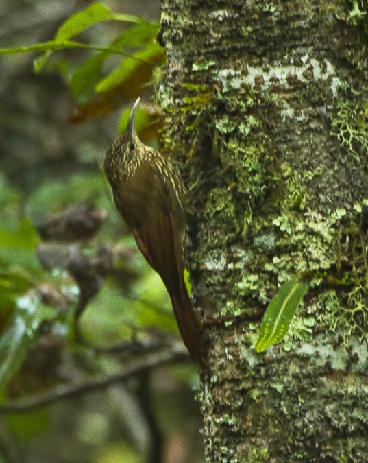 Spot-crowned Woodcreeper - Oaxaca - Mexico_S4E9056